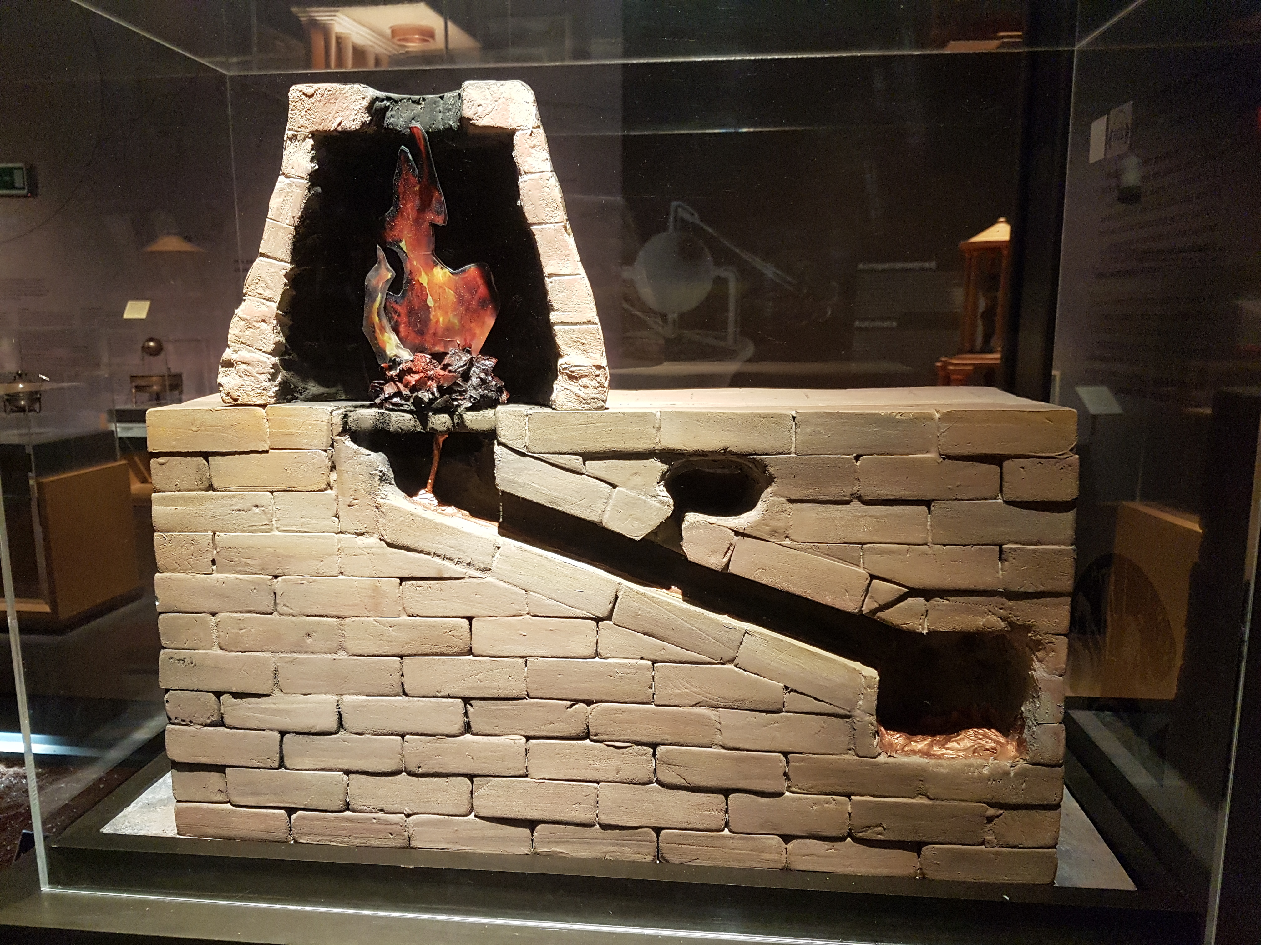 Bronze furnace, Aegina, Greece 2200 BC (model). Thessaloniki Technology Museum